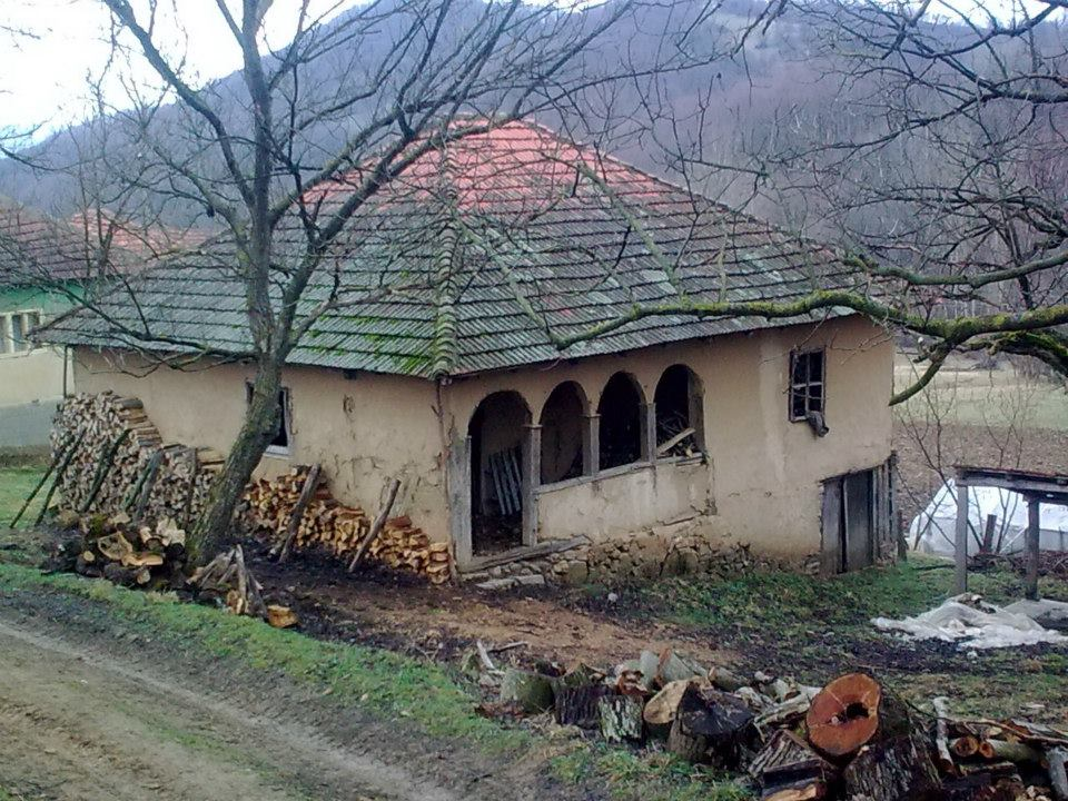 Stara dupljanska kuca, danas vlasnistvo Mirka Stankovica u starom Mijovcu. Izgradjena negde posle 1930. godine